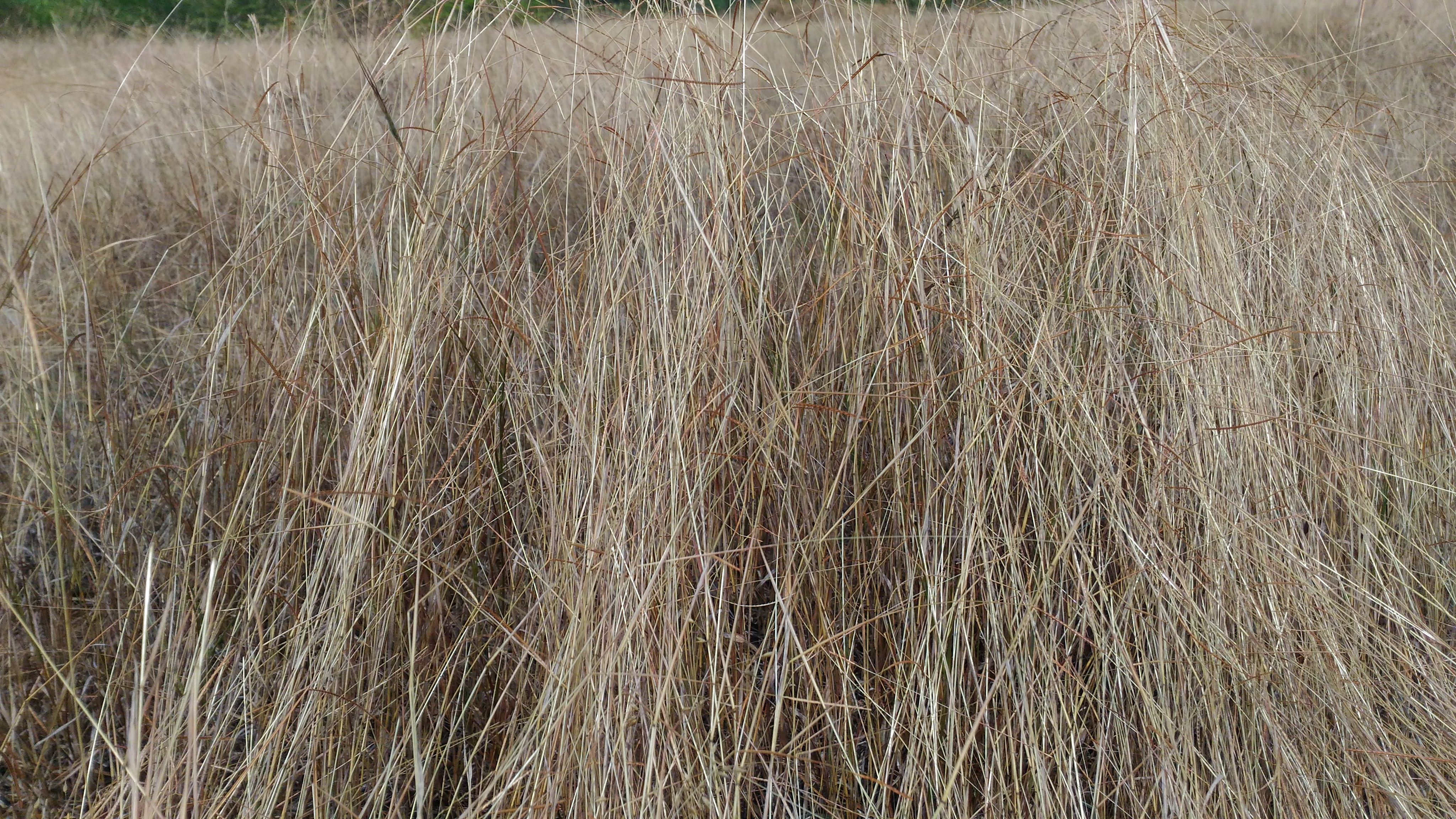 Muli grass